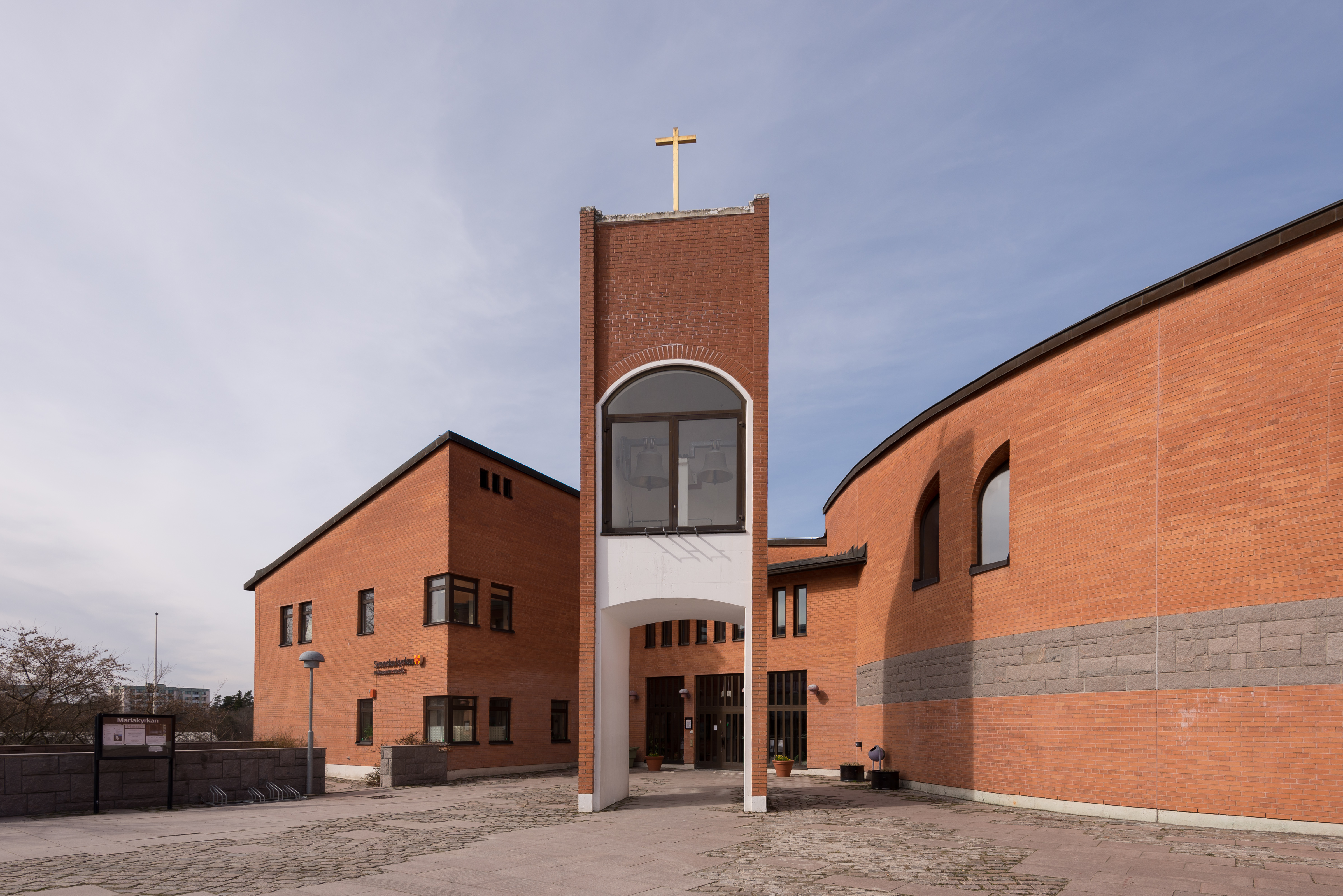 Mariakyrkan (Maria church) in Skogås, Stockholm. Built 1987, architect Fritz Voigt. Trångsund-Skogås Parish, Diocese of Stockholm, Church of Sweden.